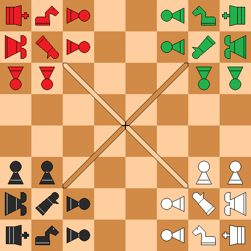 Four Seasons Chess Diagram.